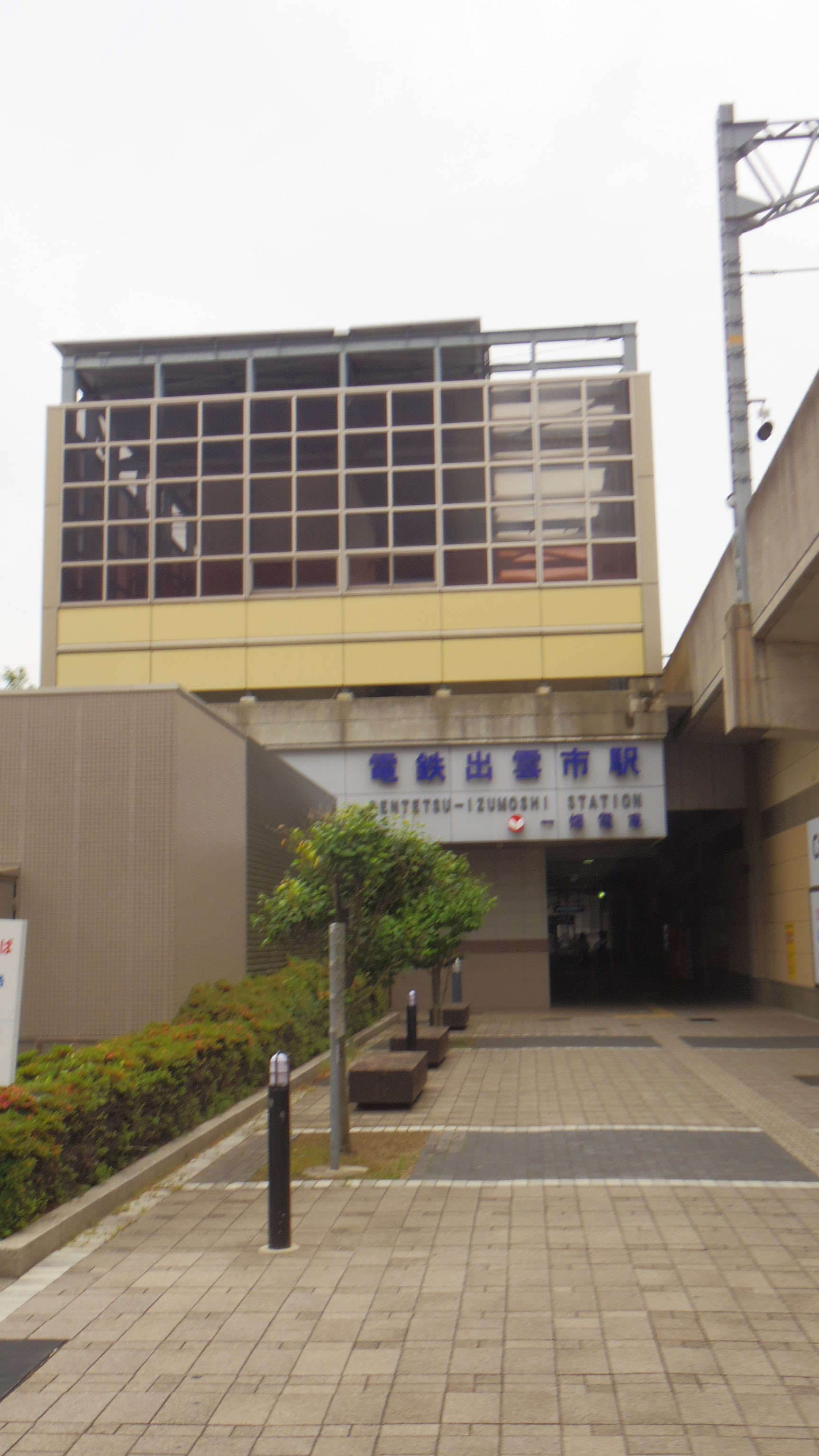 Ichibata train Dentetsuizumoshi Station.